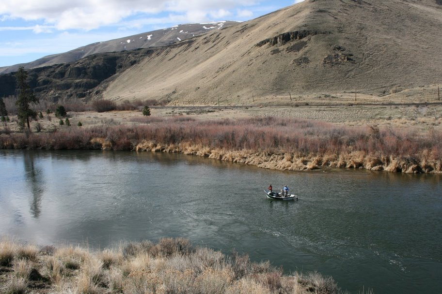 For use with the article on Umtanum Ridge Water Gap in Wikipedia. Photograph was taken by the uploader.